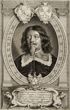 Johann Jakob Wolff von Todenwarth (1585-1657) hessian diplomat.